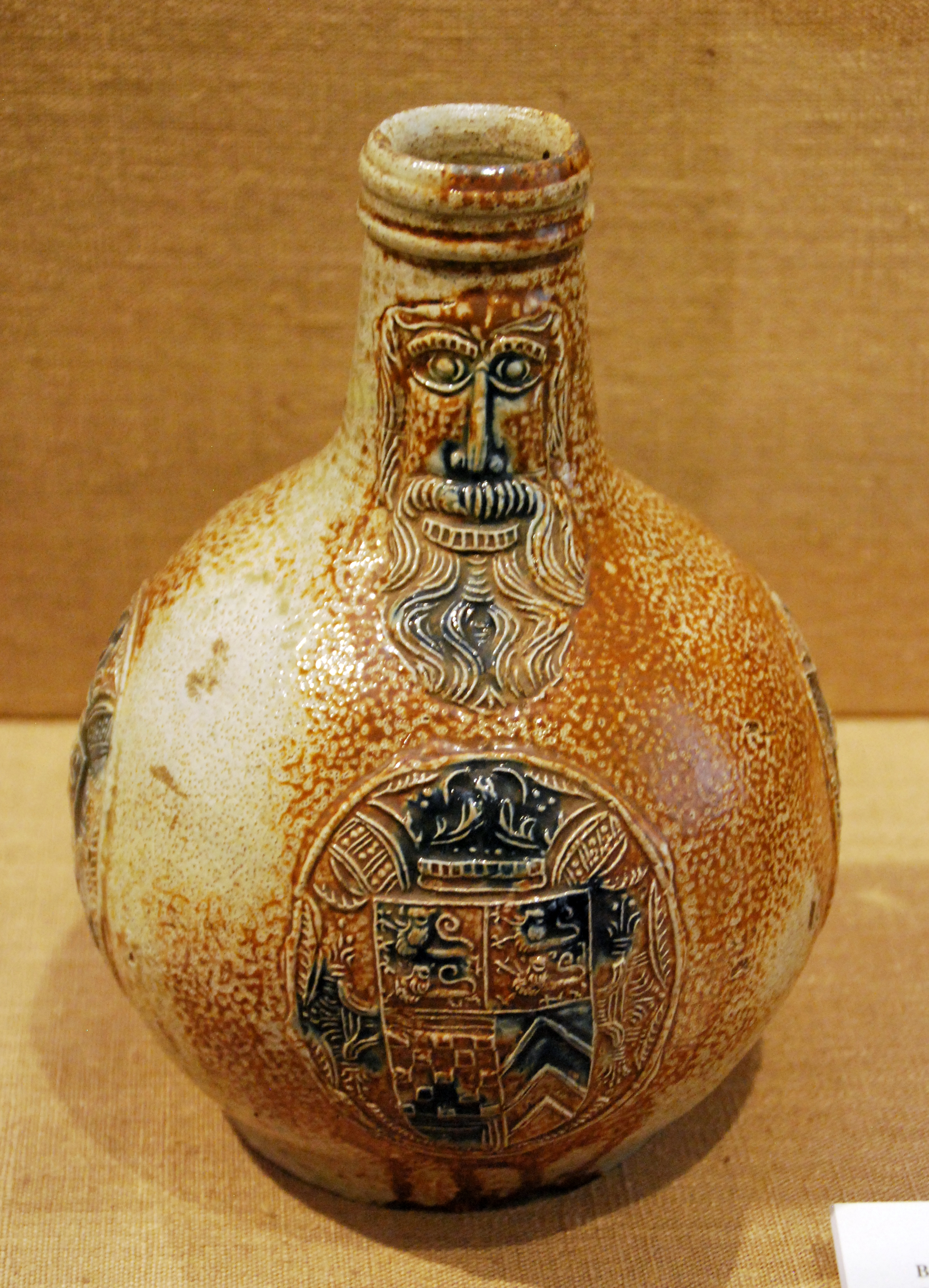 Stoneware-botte with the face of a bearded man and coat of arms; Salt glazed with wash and cobalt decoration; c. 1600, from Frechen; Charles W. Nichols Collection, "The Art of German Stoneware" 2012 exhebition.